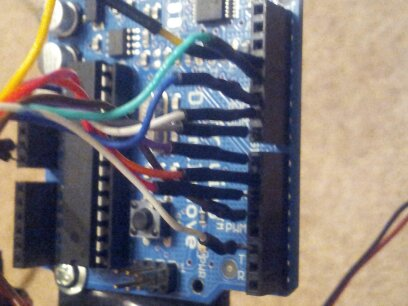 Wires connected to arduino's Pin 4- Pin 12